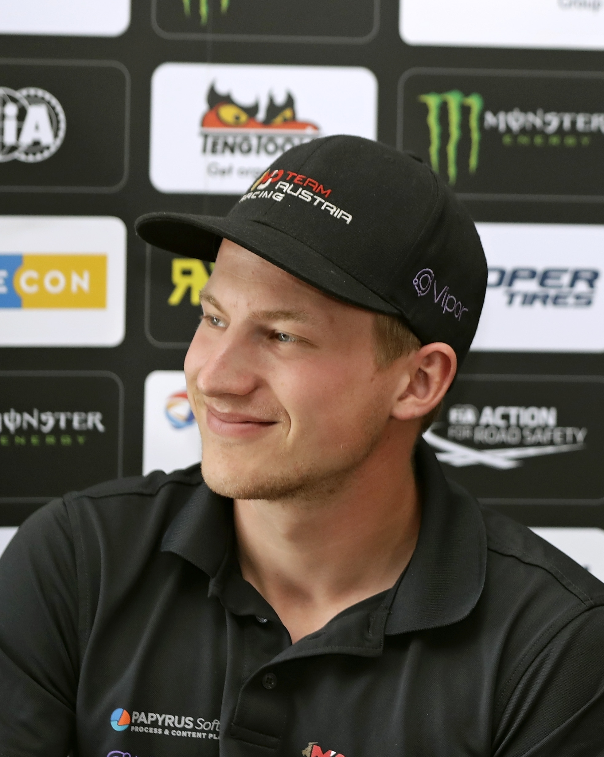 2017 FIA World Rallycross Championship // Round 07, Höljes // Credit: EKS/Bodo Kräling